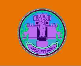 Flag of Nakhon Ratchasima Province